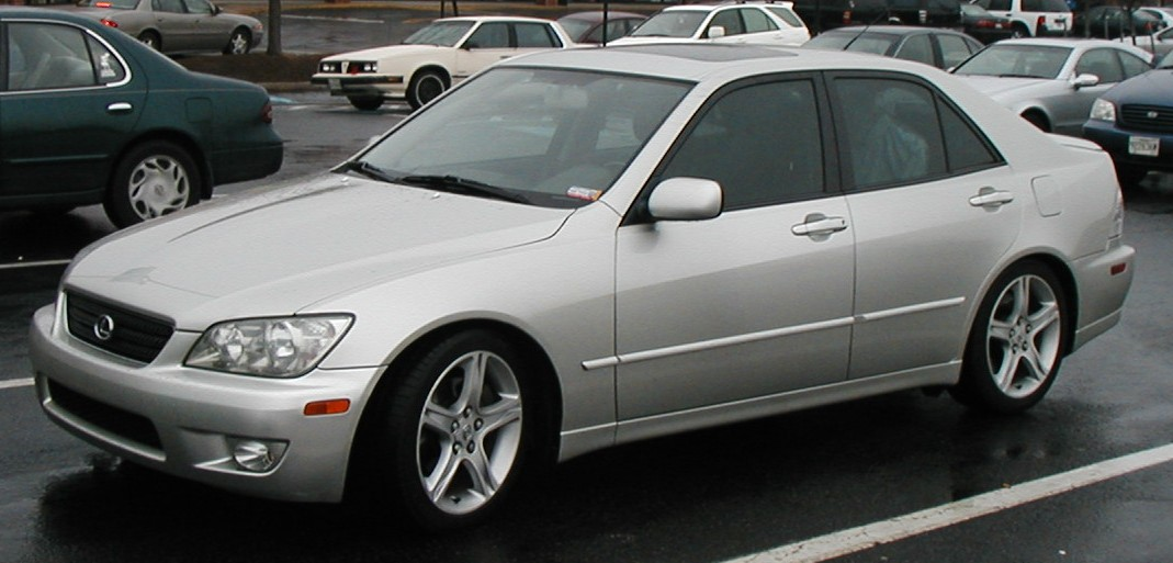 2001-2005 Lexus IS300 photographed in USA.